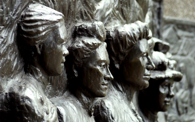 An interesting perspective of the Tribute to the Suffragettes.